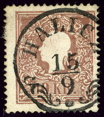 Austrian KK 10 kr stamp, issue 1859, cancelled at HALICZ, Galicia (Ukraine)